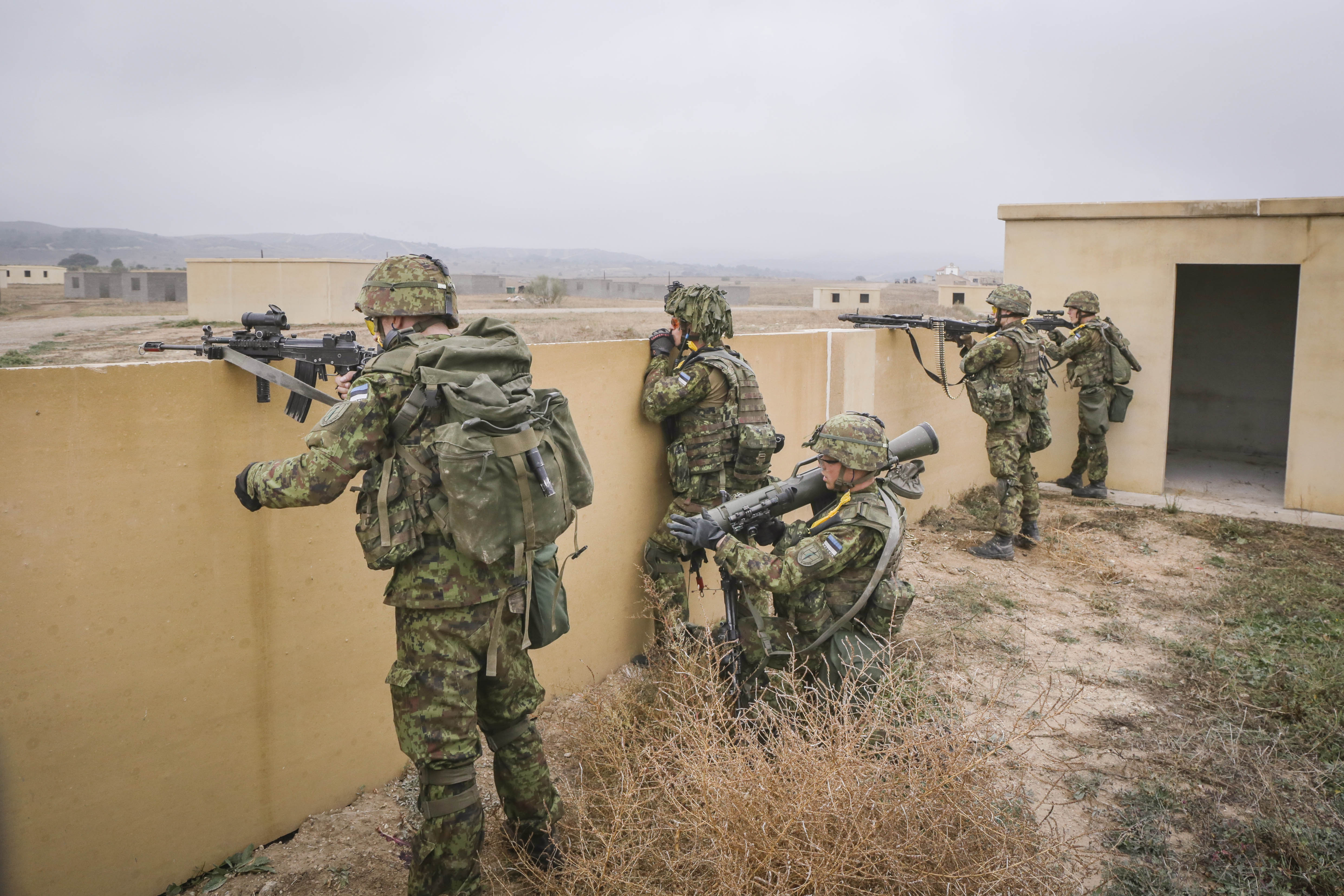 Baltic Batallion Urban Ops.Casa Altas in San Gregorio/Spain. Trident Juncture'15 . October, 27th 2015 ( Photo by: Phillipp Kunze, Sgt. DEU-Army )